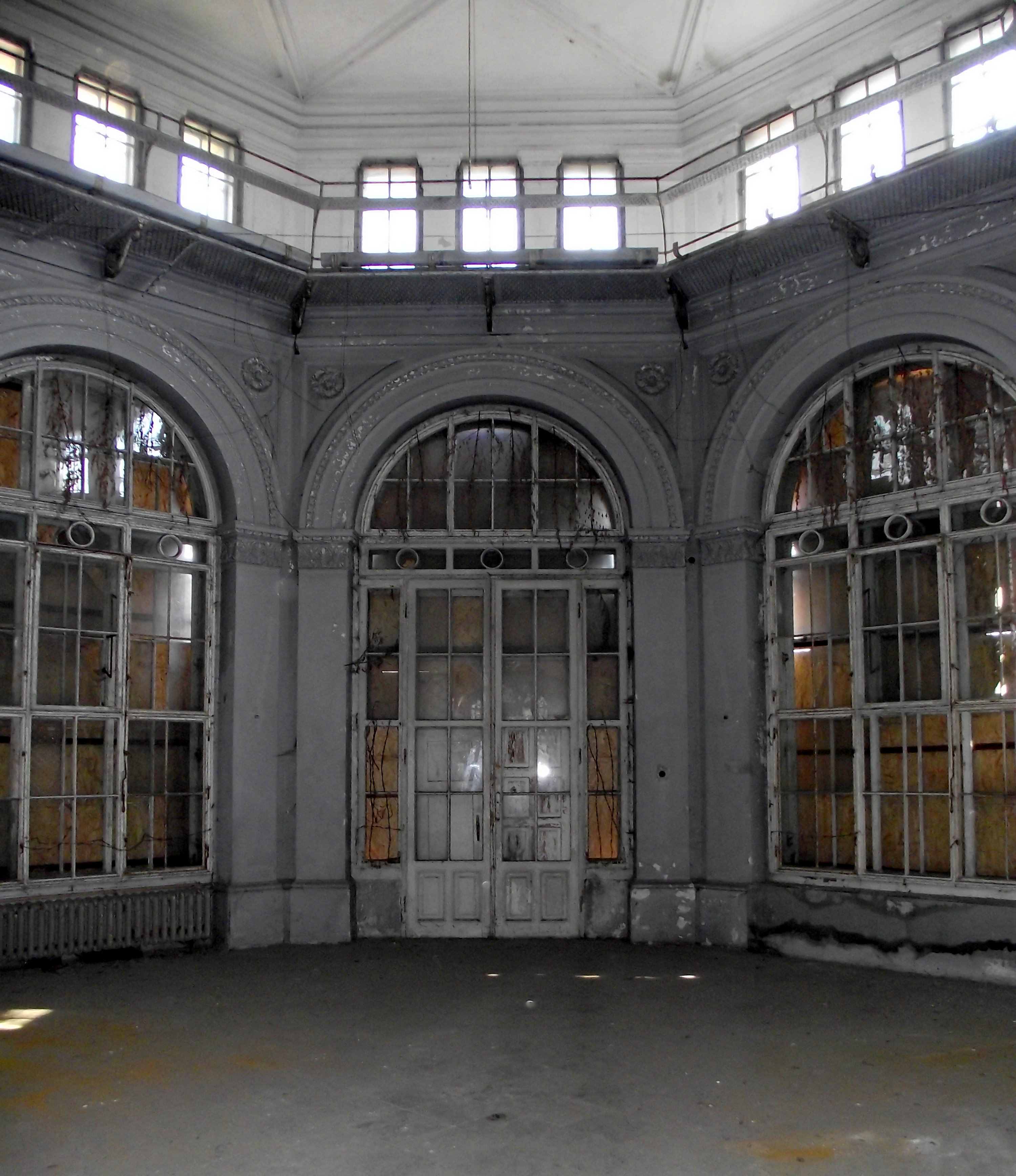 Interiors of the devastated Potocki Palace in Krzeszowice, Poland.